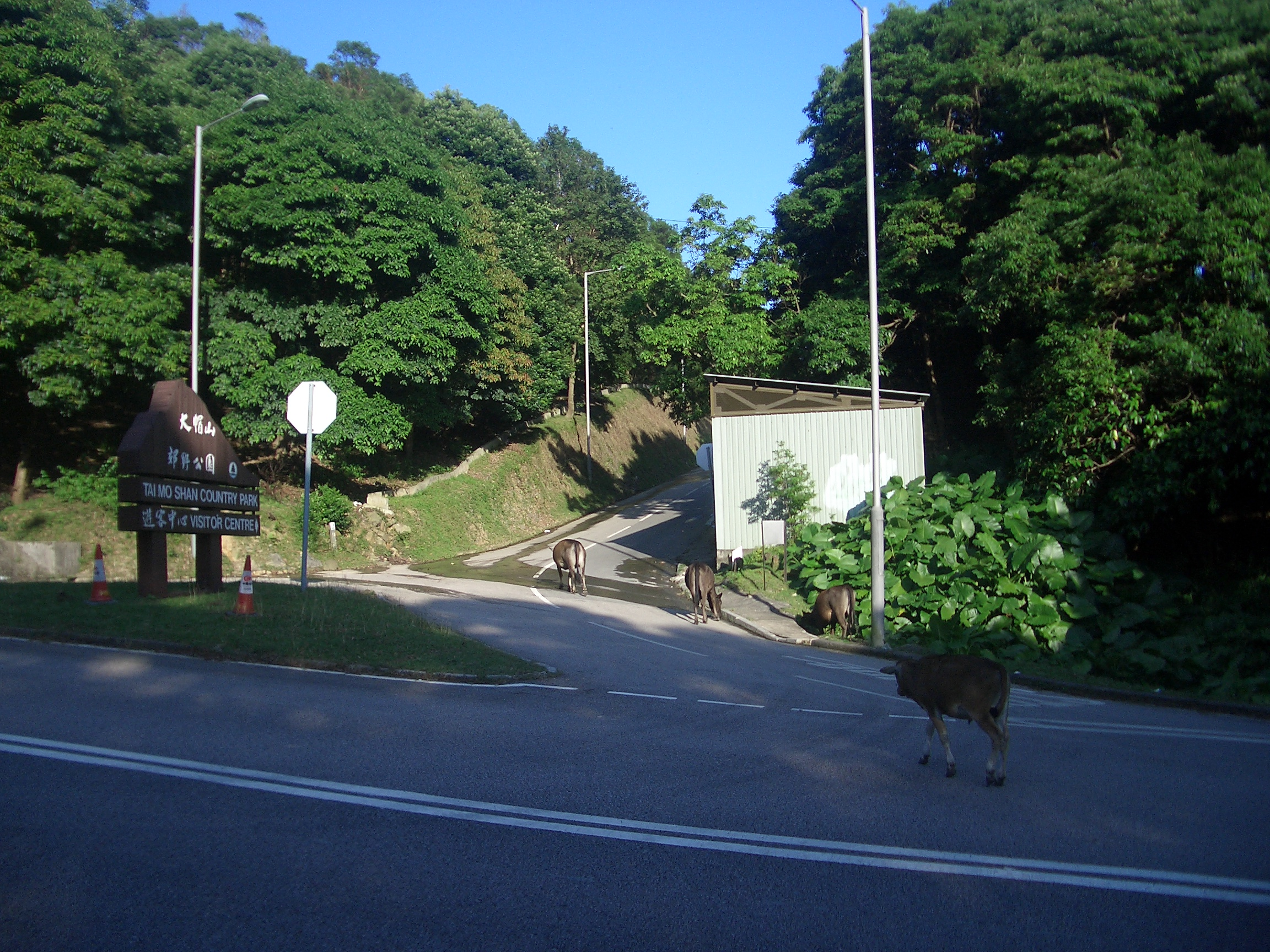 Tai Mo Shan Road (大帽山道) turn-off on Route Twisk